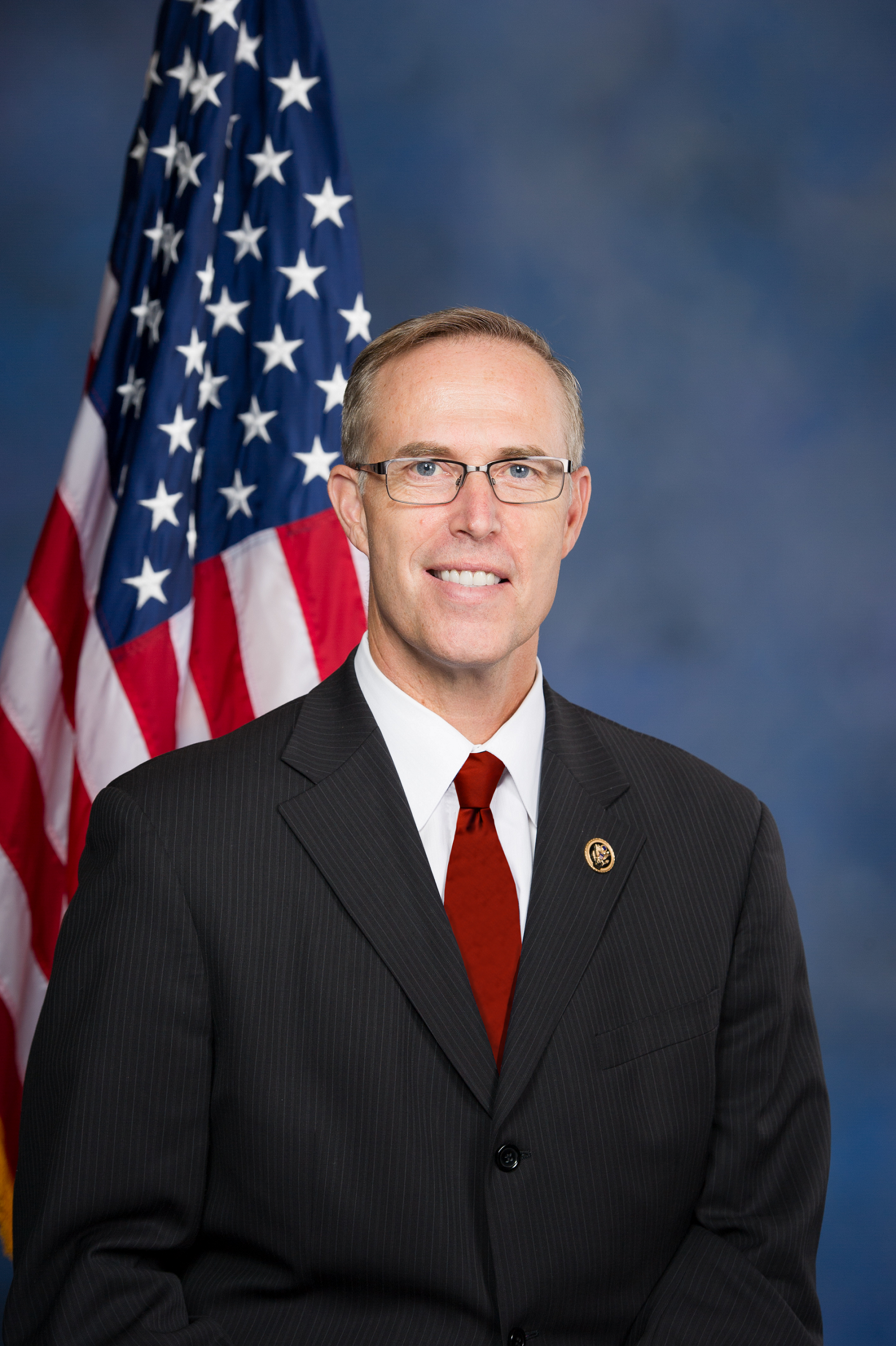 Jared Huffman official photo